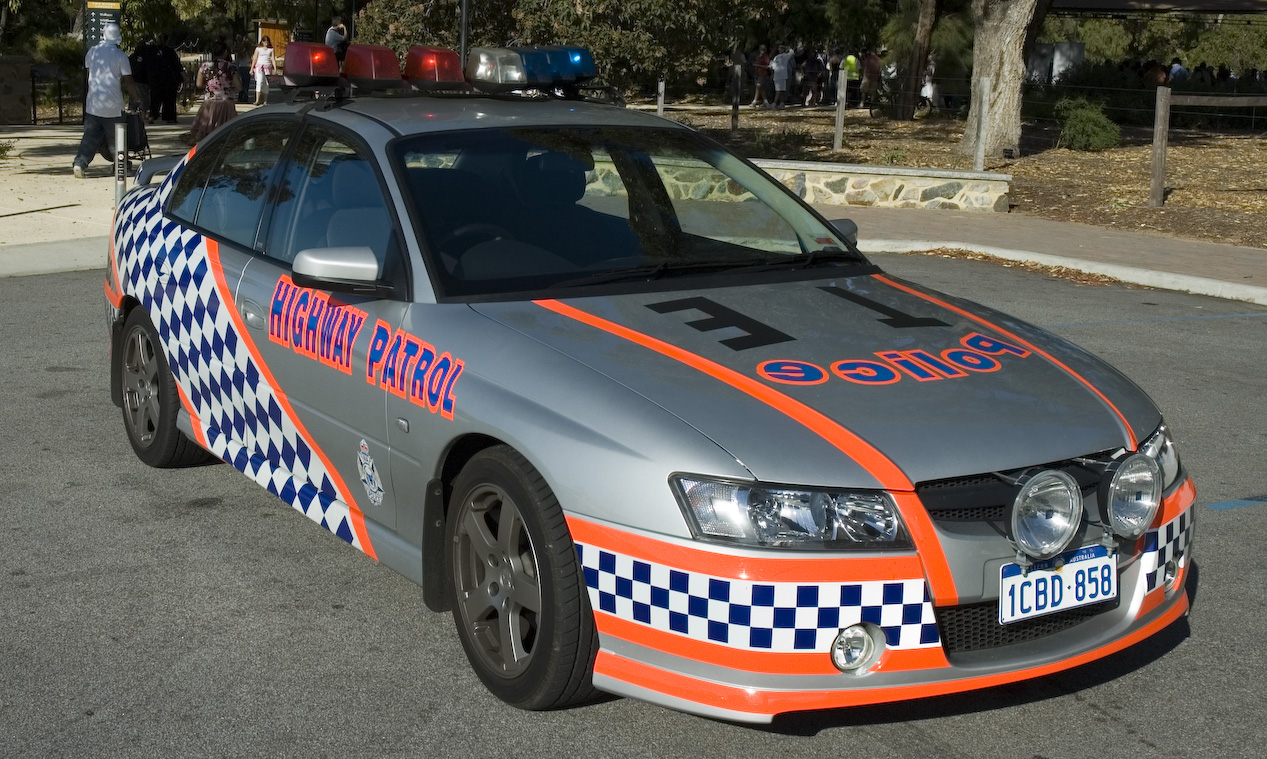 Western Australia Police TE202 - Traffic Enforcement Group.